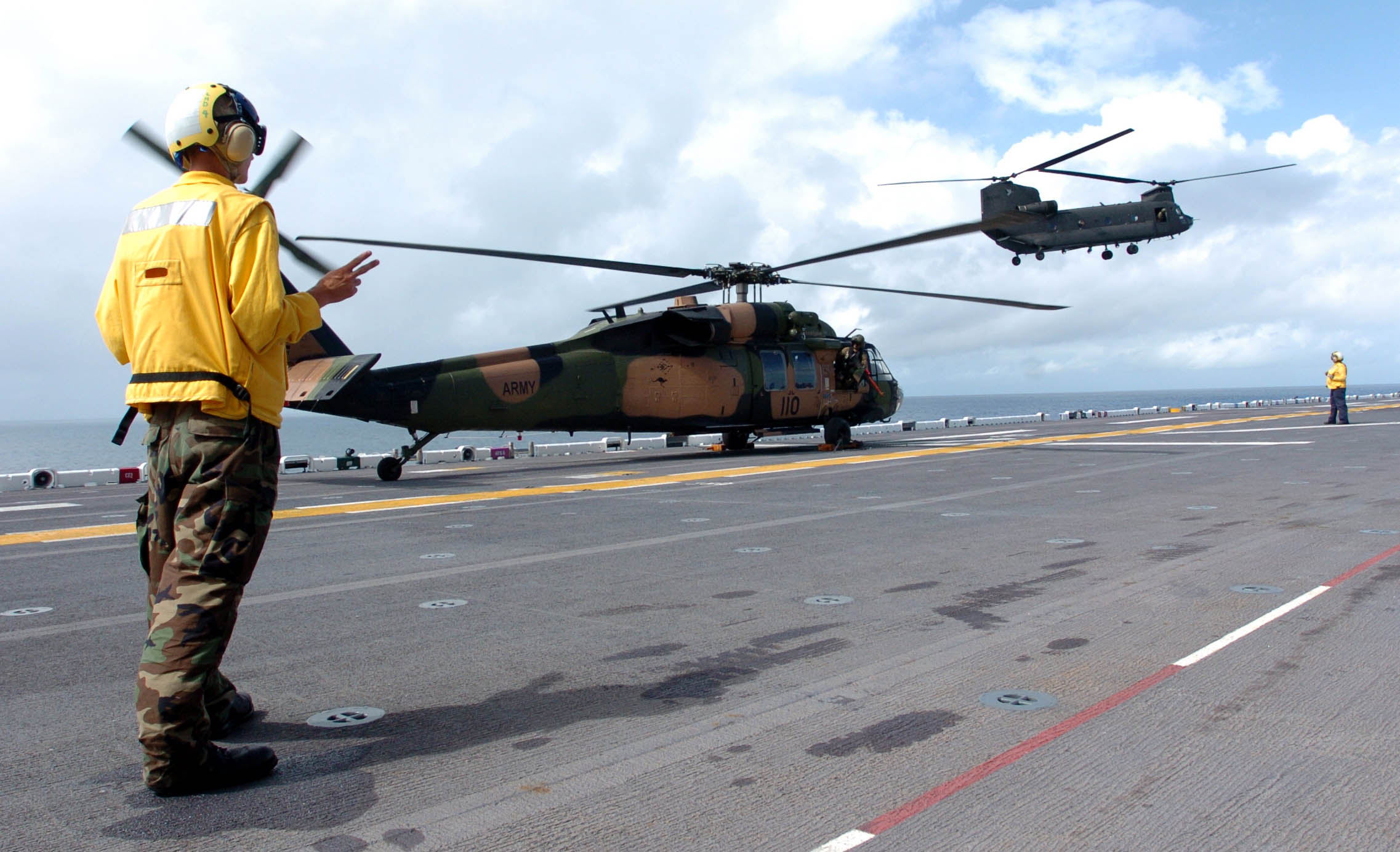 Coral Sea (June 12, 2005) - An Australian Army S70A-9 Black Hawk and a CH-47D Chinook assigned to Australian 5th Aviation Regiment, conduct flight operations from the flight deck of the amphibious assault ship USS Boxer (LHD 4) in support of Talisman Sabre 2005. Talisman Sabre is an exercise jointly sponsored by the U.S. Pacific Command and Australian Defense Force Joint Operations Command, and designed to train the U.S. Seventh Fleet commander's staff and Australian Joint Operations staff as a designated Combined Task Force (CTF) headquarters. The exercise focuses on crisis action planning and execution of contingency response operations. U.S. Pacific Command units and Australian forces will conduct land, sea and air training throughout the training area. More than 11,000 U.S. and 6,000 Australian personnel will participate. U.S. Navy photo by Photographer's Mate 3rd Class James Bartels (RELEASED)